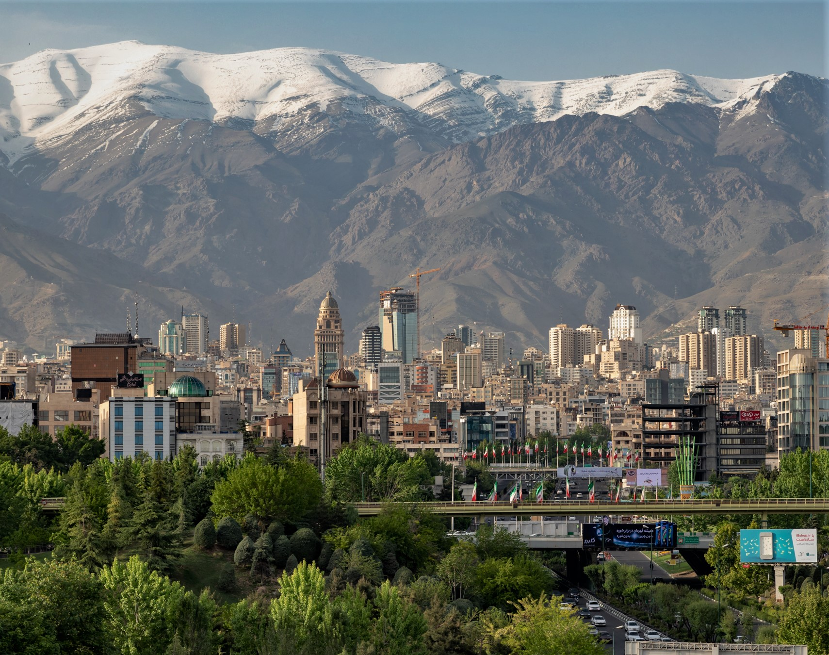 North of Tehran Skyline view, Tehran, Iran